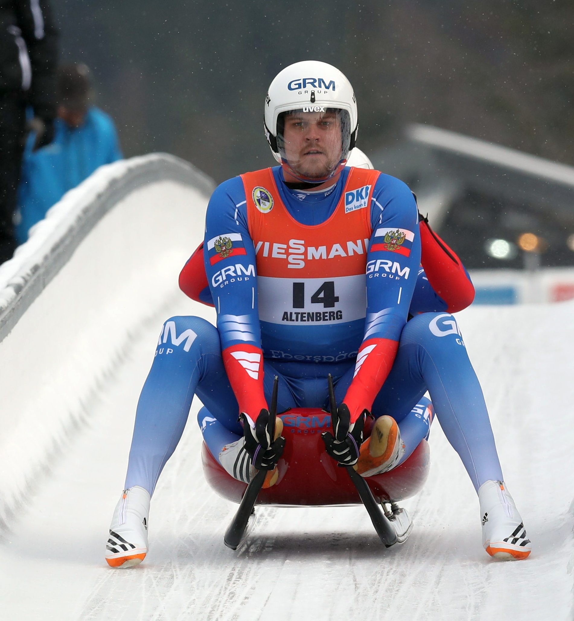 Doubles race at the Altenberg luge world cup 2017/18: Aleksandr Denisyev, Vladislav Antonov